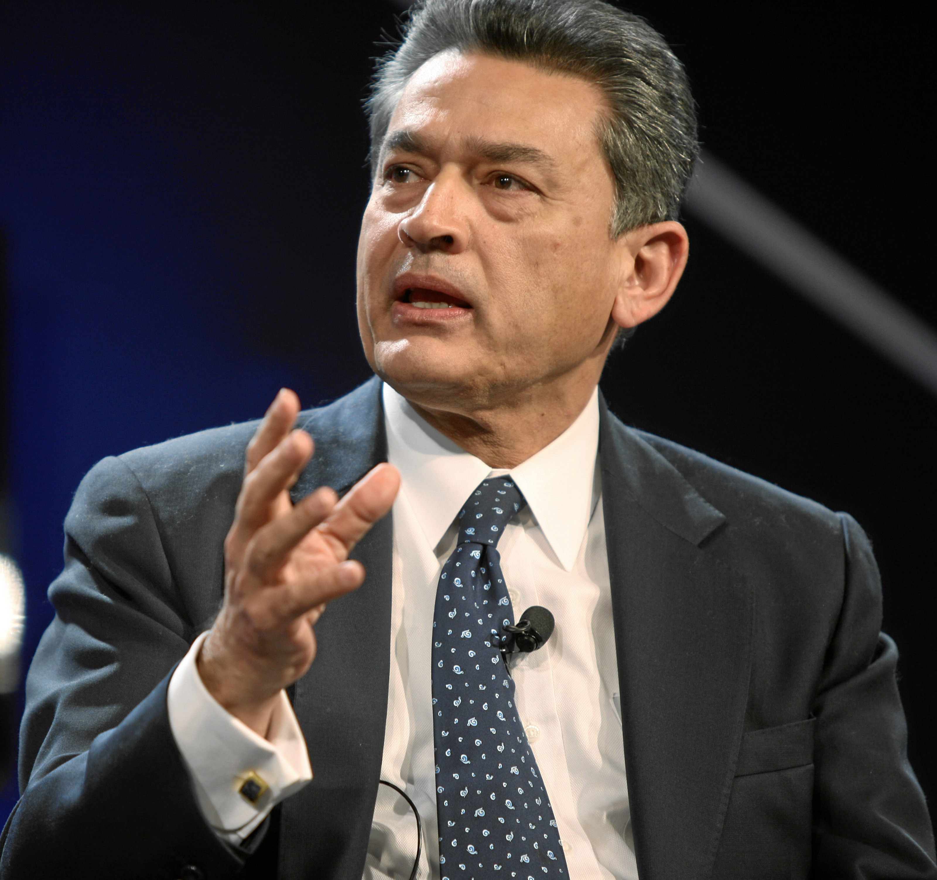 DAVOS/SWITZERLAND, 28JAN10 - Rajat Kumar Gupta captured during the session 'Will India Meet Global Expectations?' at the Congress Centre at the Annual Meeting 2010 of the World Economic Forum in Davos, Switzerland, January 28, 2010. Copyright by World Economic Forum by Sebastian Derungs